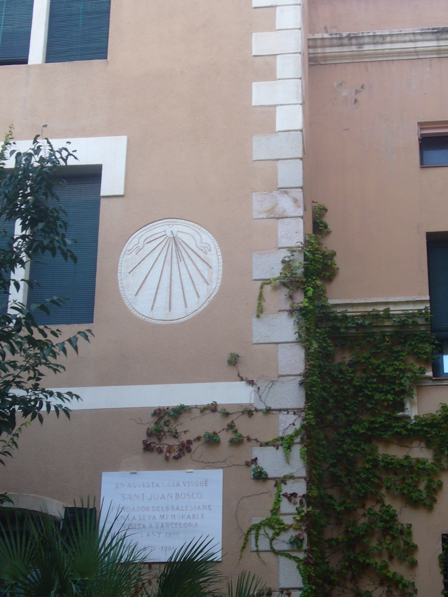 House where Don Bosco lived during his visit to Barcelona in 1886. See plaque at the wall.